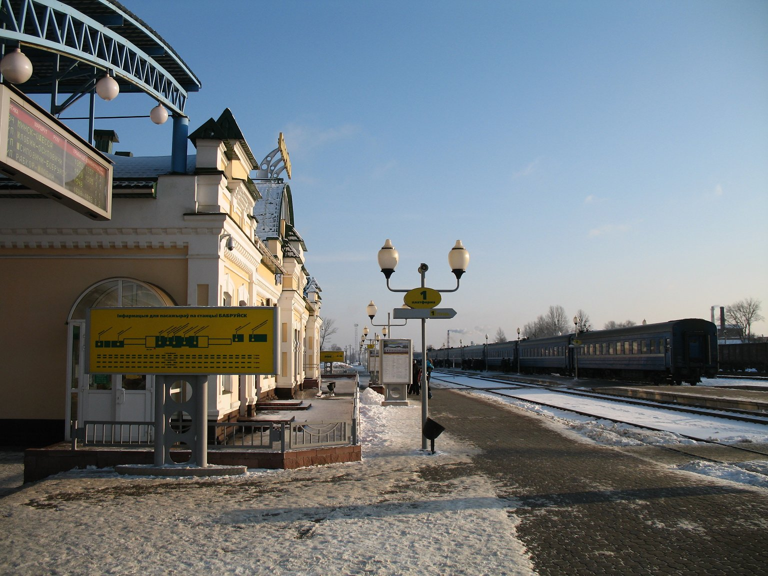 View of the Bobrujsk railway station, in Belarus. Bobrujsk and Zlobin railway stations are the main stations between Minsk and Gomel. The train on the track 2 stopped in Bobrujsk during her way from Minsk to Gomel and further to Odessa, Ukraina.